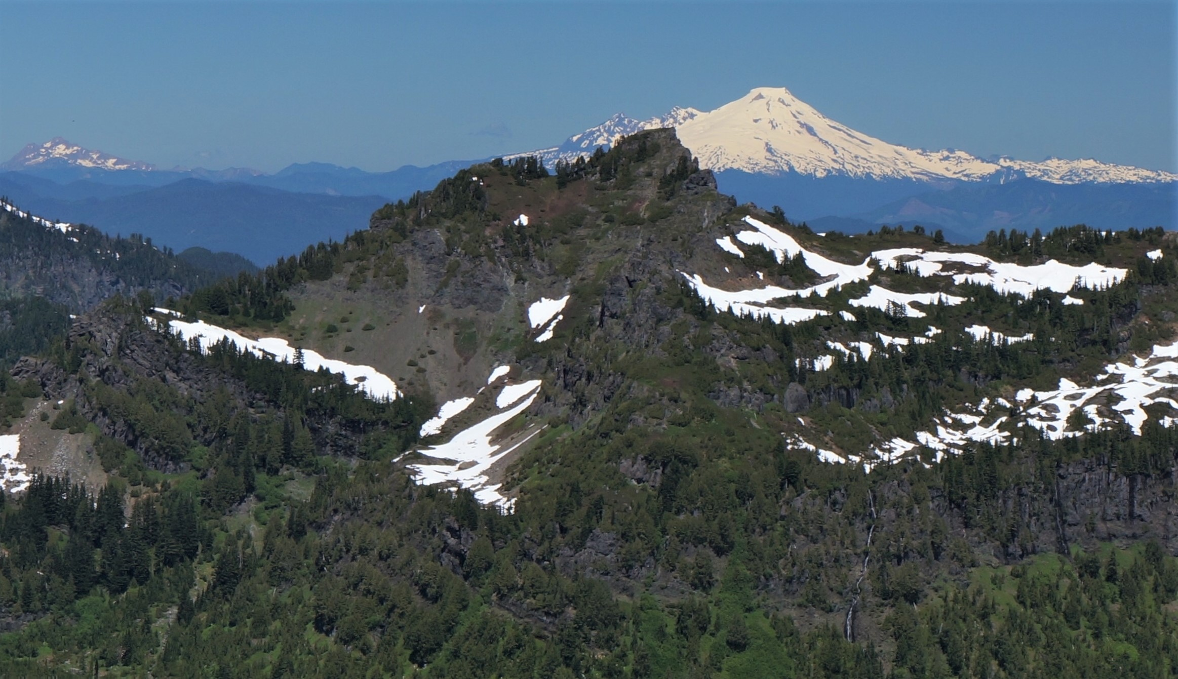 Stillaguamish Peak and Mt. Baker seen from Dickerman Mountain